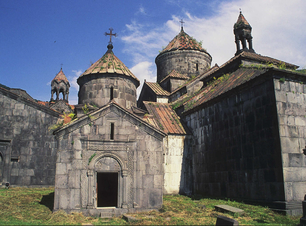 Description: Armenia, Haghbat monastery; Source: My own picture; Date: created May 2005; Author: Konrad Kuhn; Permission: Own work, attribution required